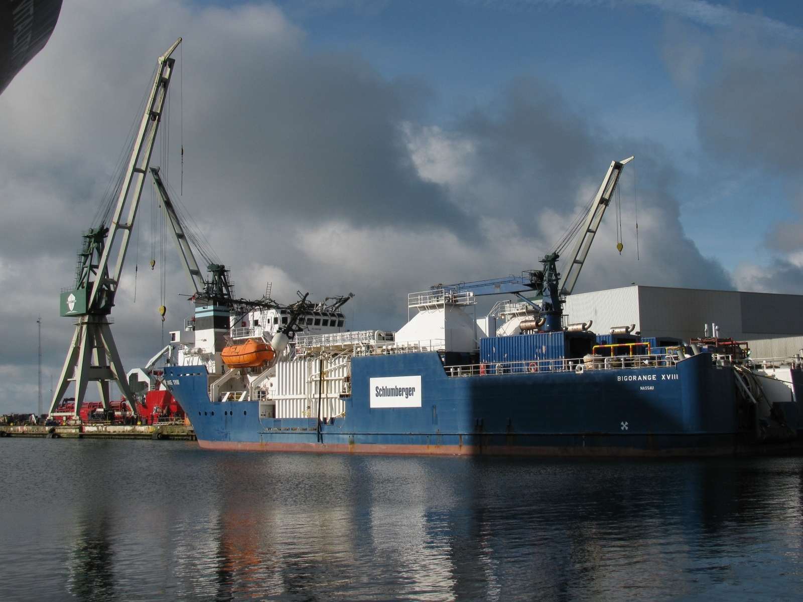 Well stimulation ship Bigorange XVIII IMO 8311314 in Frederikshavn Havn